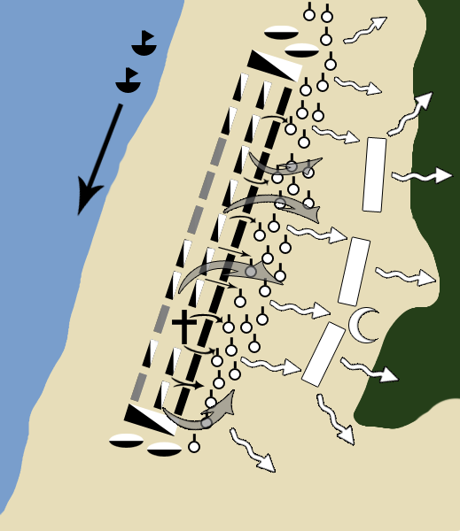 A map of another stage of Battle of Arsuf